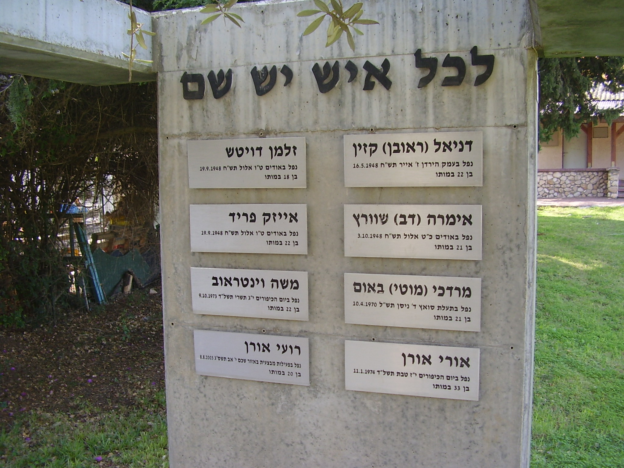 war memorial in udim